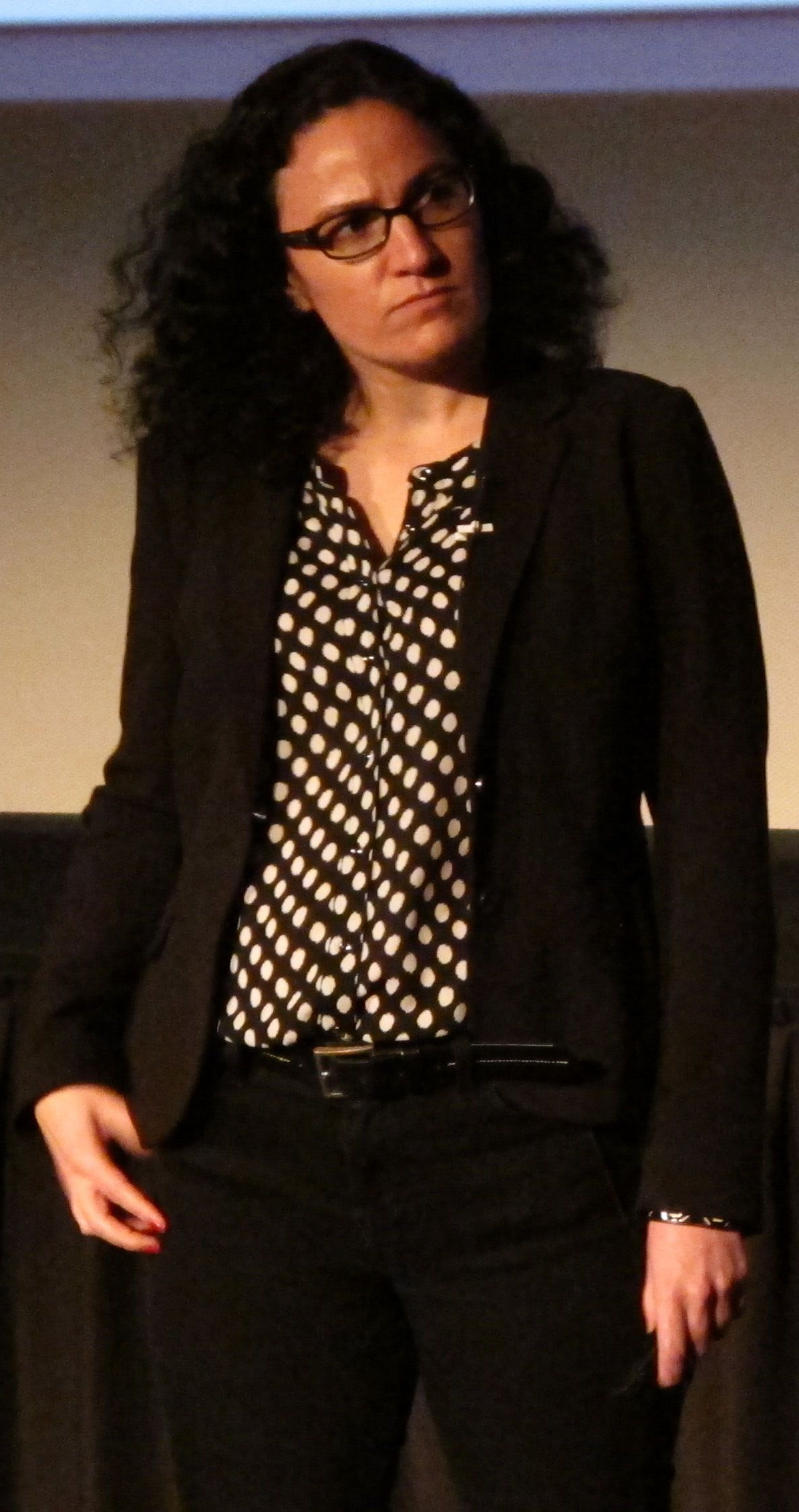 Marcia Hofmann listens to a question during her 2014 presentation "The Laws and Ethics of Trustworthy Technology" at TrustyCon held in San Francisco. (This version has been cropped from the original.)